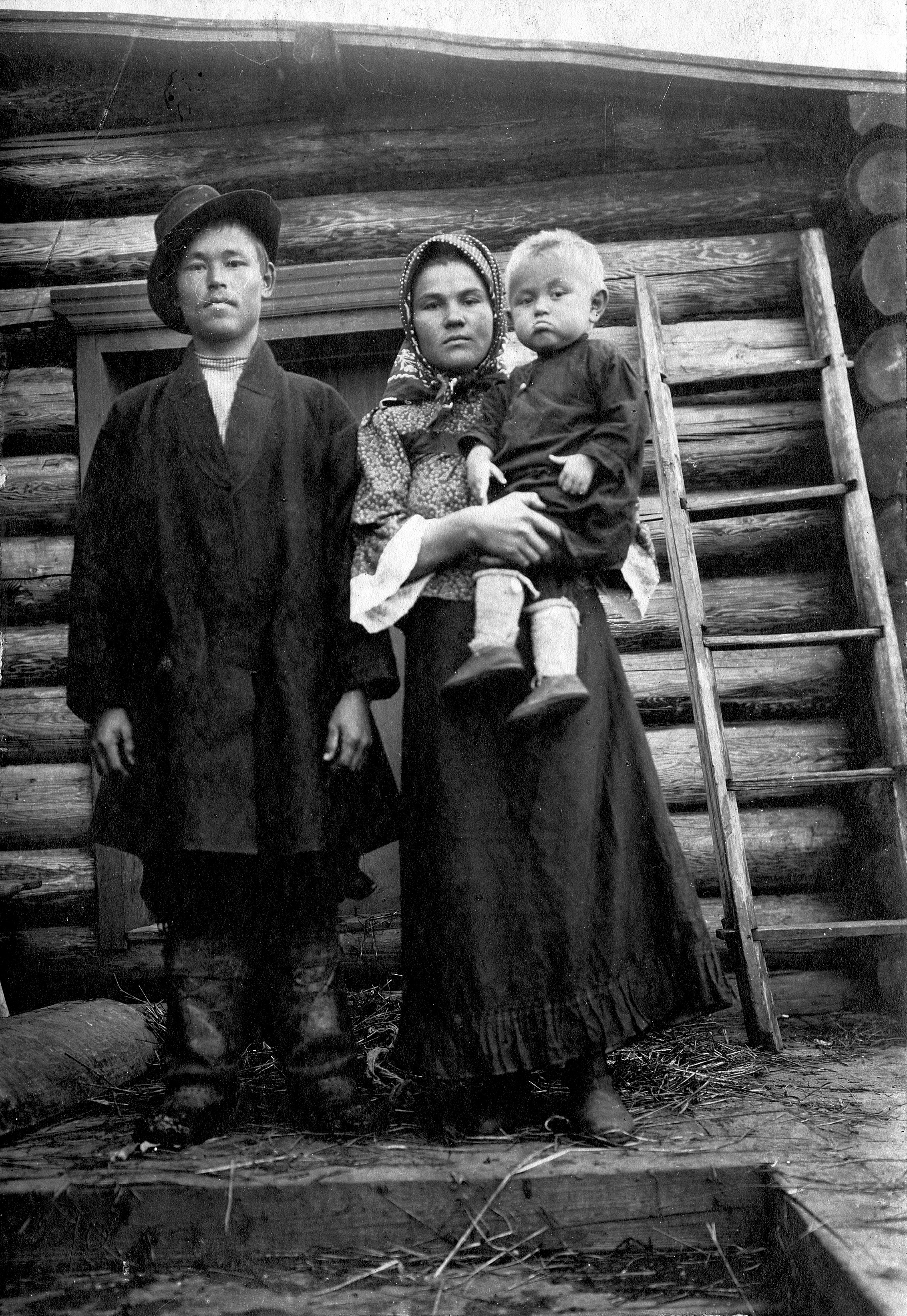 tofalary Семья тофаларов